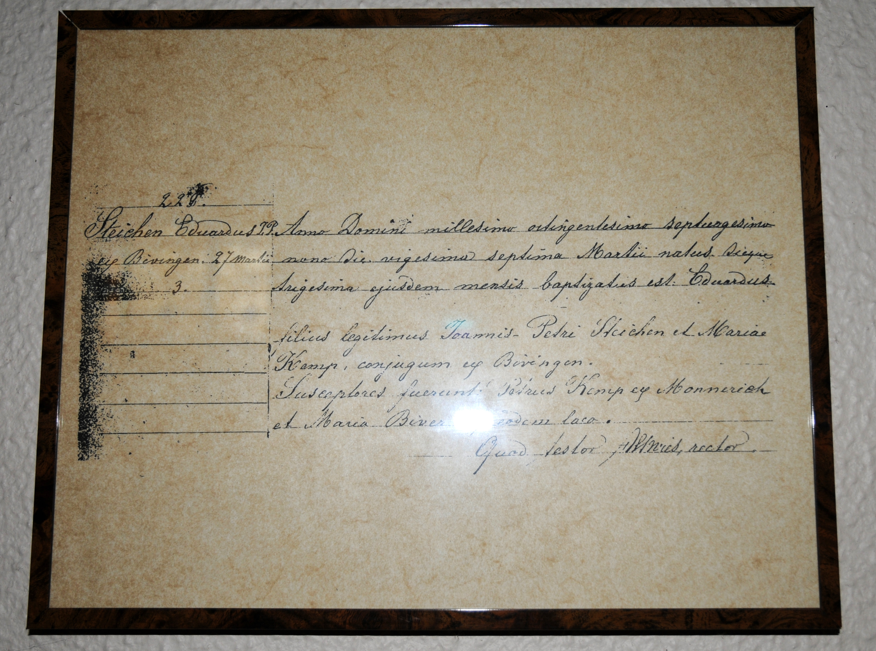 Facsimile: Baptismal certificate of Edward Steichen kept in the church in Bivange (Roeser).